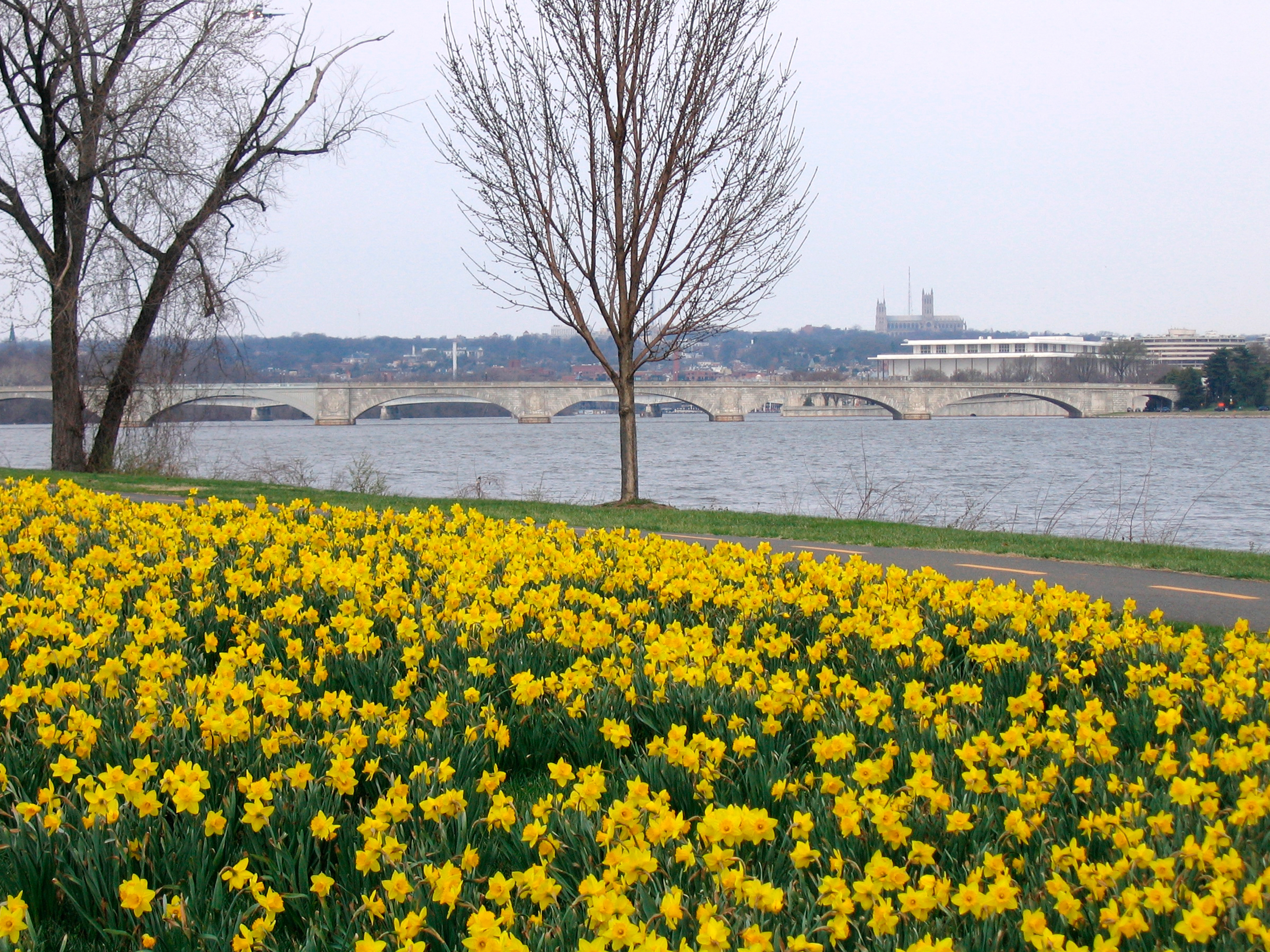 Daffodils in Lady Bird Johnson Park, on the northeastern shore of Columbia Island in the Potomac River in Washington, D.C., in the United States.